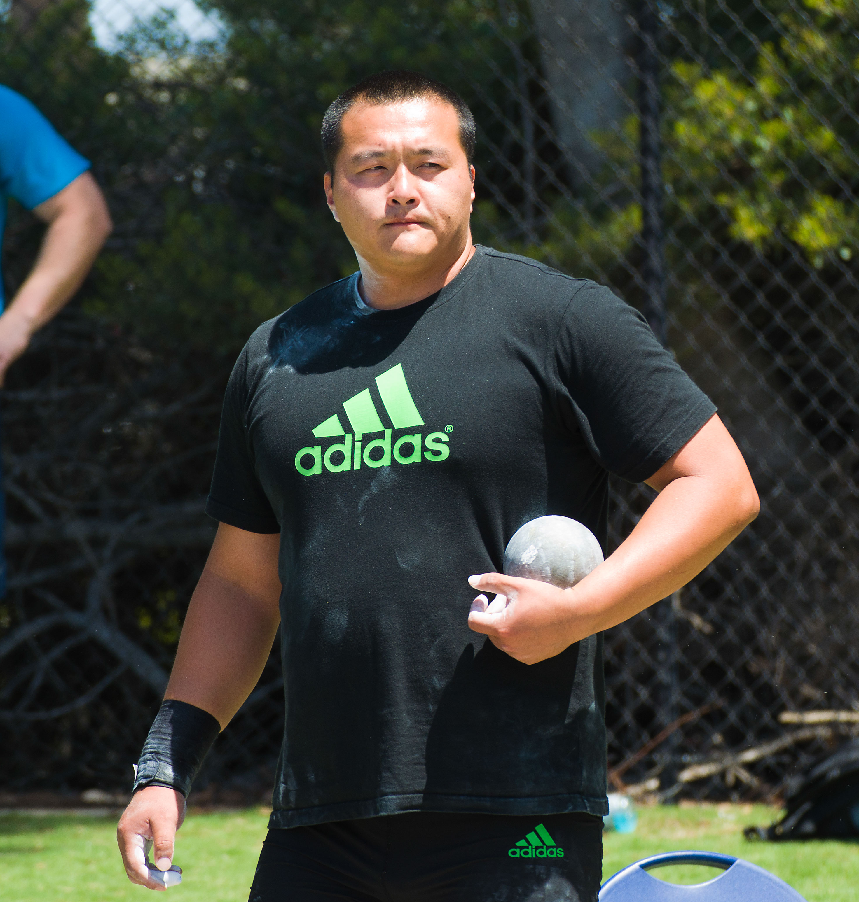 Threw 60-10""